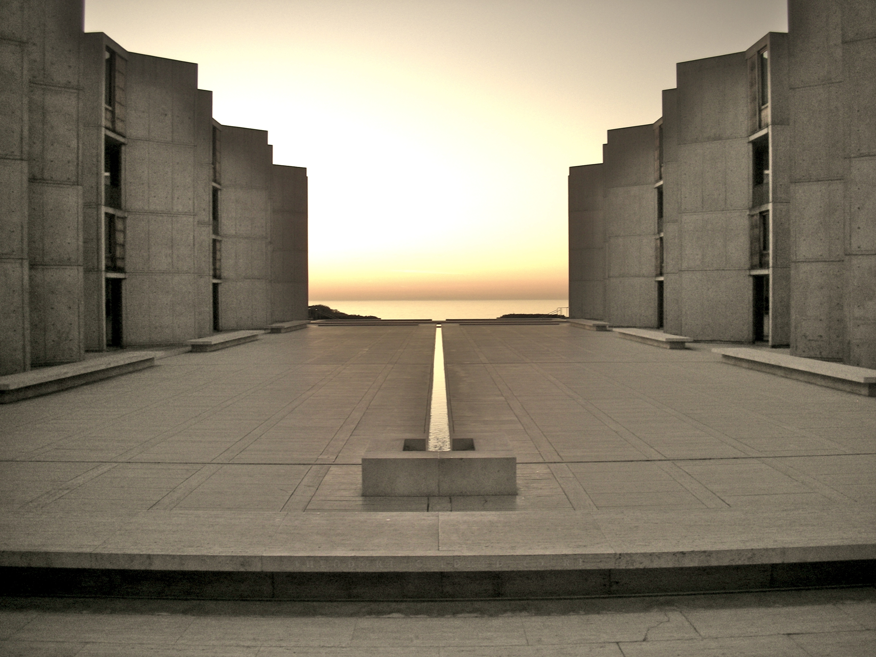 Courtyard with rill fountain — Salk Institute for Biological Studies. La Jolla, San Diego, California, USA. Architect: Louis Kahn